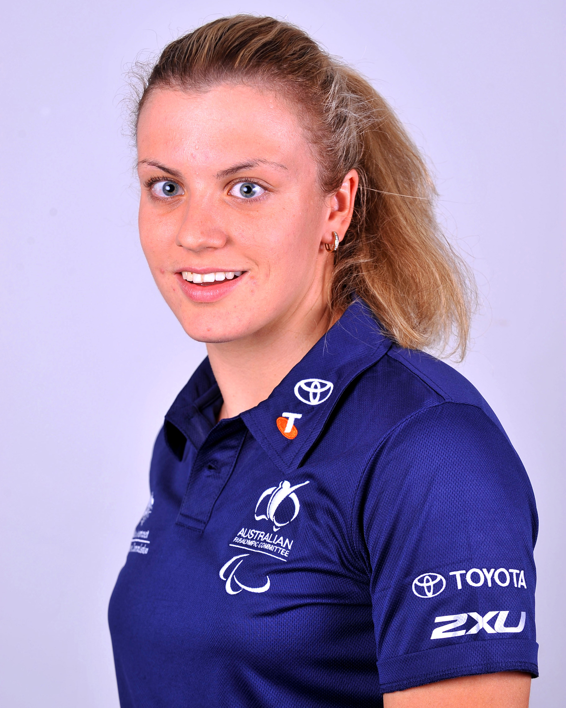 Portrait of Australian swimmer Jacqueline Freney, 2012 Australian Paralympic (shadow) Team athlete